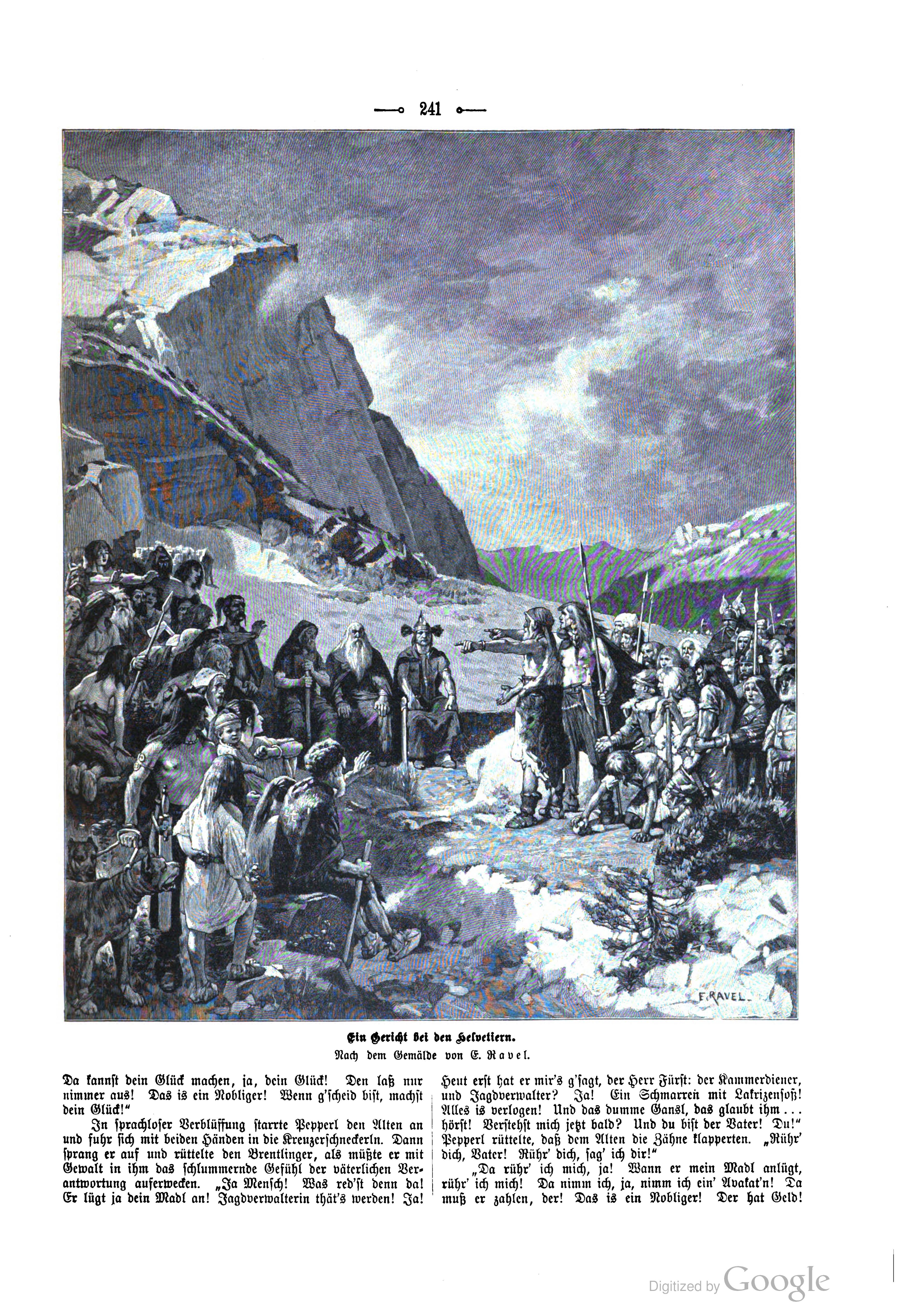 no caption